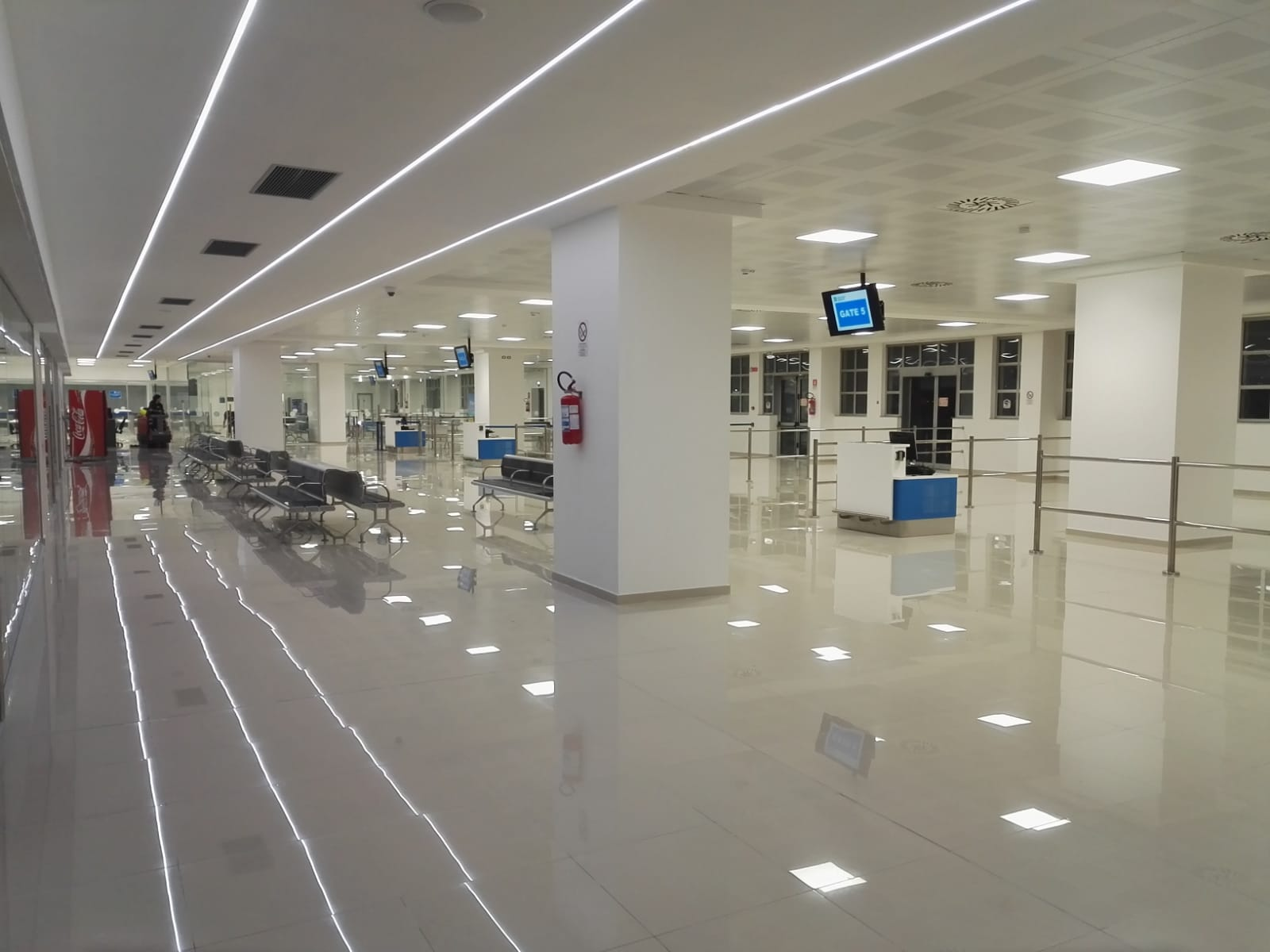 Abruzzo Airport (Pescara) - New Departures Hall (2019)